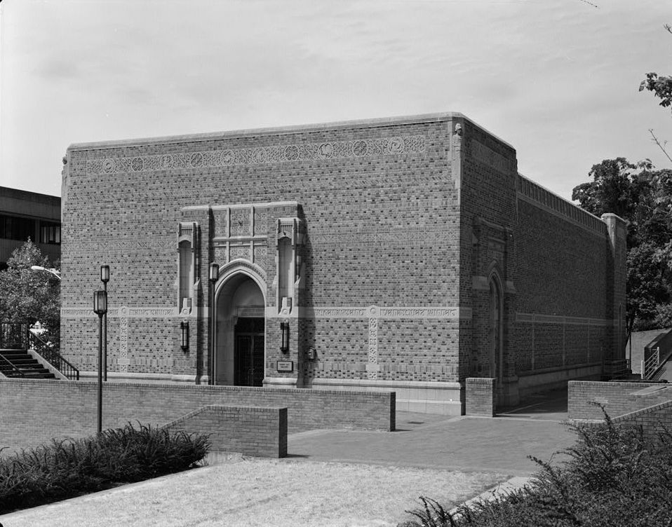 Title: - Henry Art Gallery, Fifteenth Avenue Northeast at Northeast Campus Parkway, Seattle, King County, WA Medium: 4 x 5 in. Reproduction Number: HABS WASH,17-SEAT,16--10 Rights Advisory: No known restrictions on images made by the U.S. Government; images copied from other sources may be restricted. ( Call Number: HABS WASH,17-SEAT,16--10 Repository: Library of Congress Prints and Photographs Division Washington, D.C. 20540 USA Place: Washington -- King County -- Seattle Latitude/Longitude: 47.66236, -122.31862 Collections: Historic American Buildings Survey/Historic American Engineering Record/Historic American Landscapes Survey Bookmark This Record